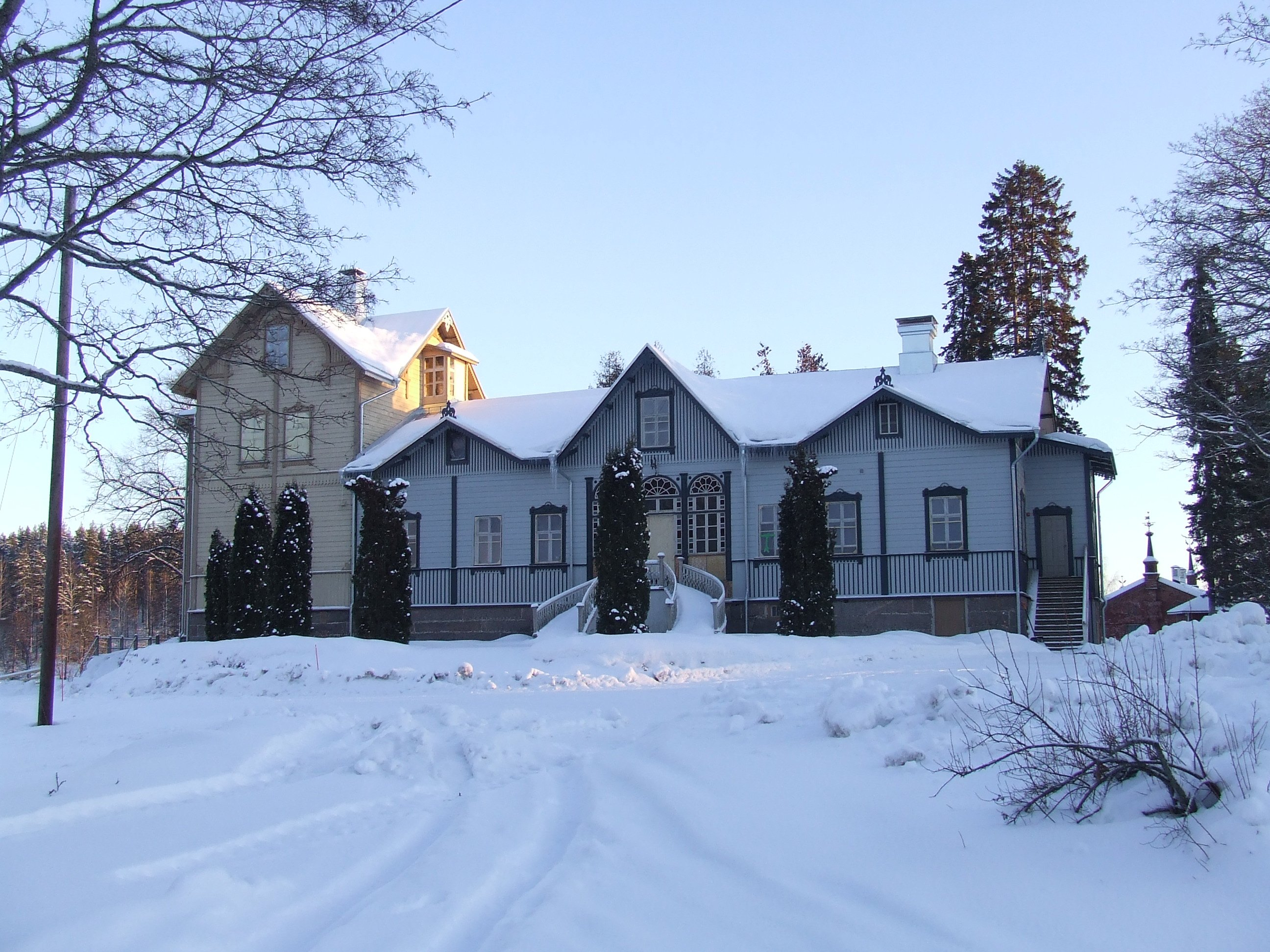 The owner's residence of Verla groundwood mill in Kouvola, Finland. The building was designed by Eduard Dippell